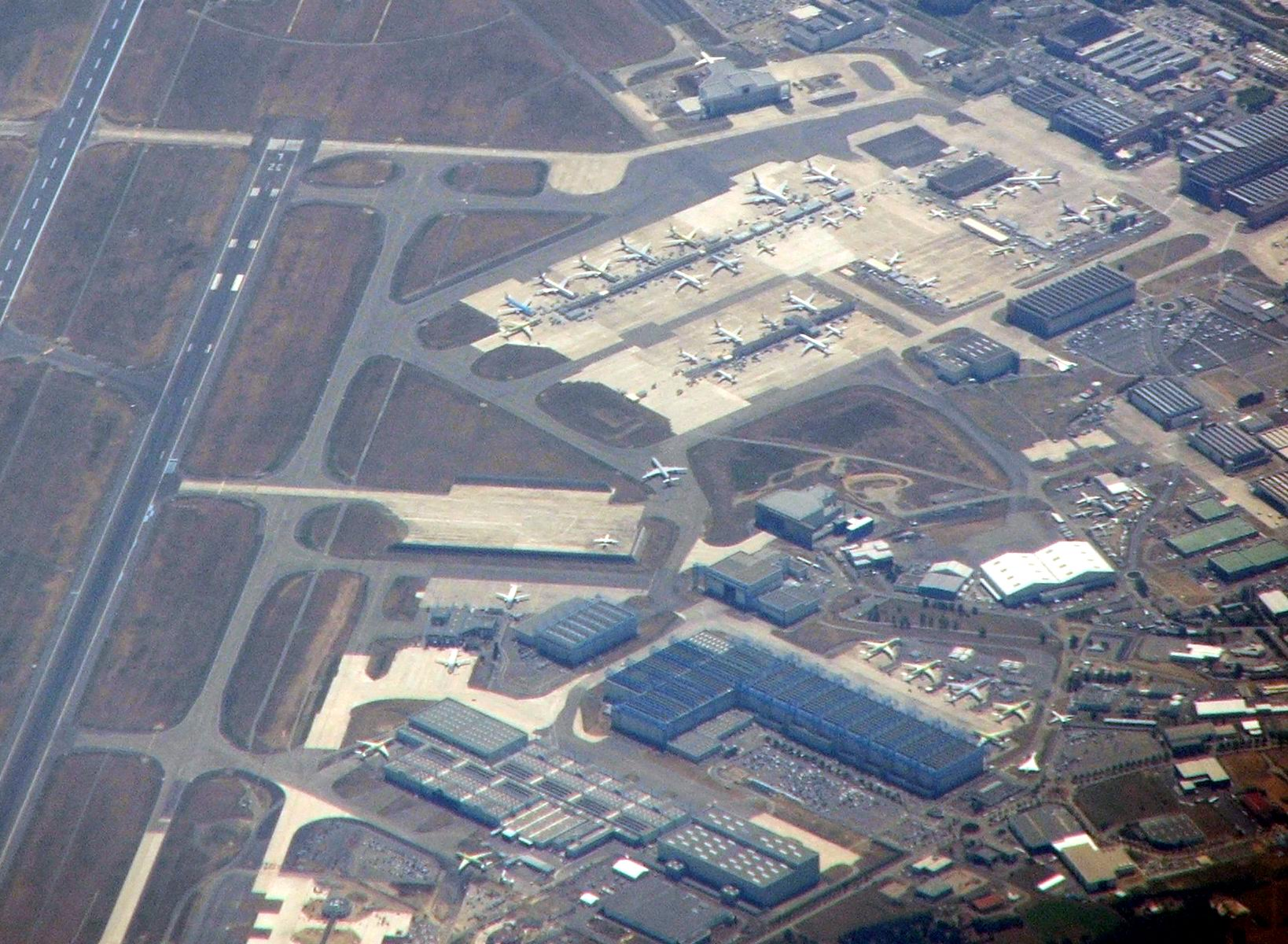 Toulouse Airport, Airbus Industries assembly site, France - aerial view when flying from Prague to Madrid